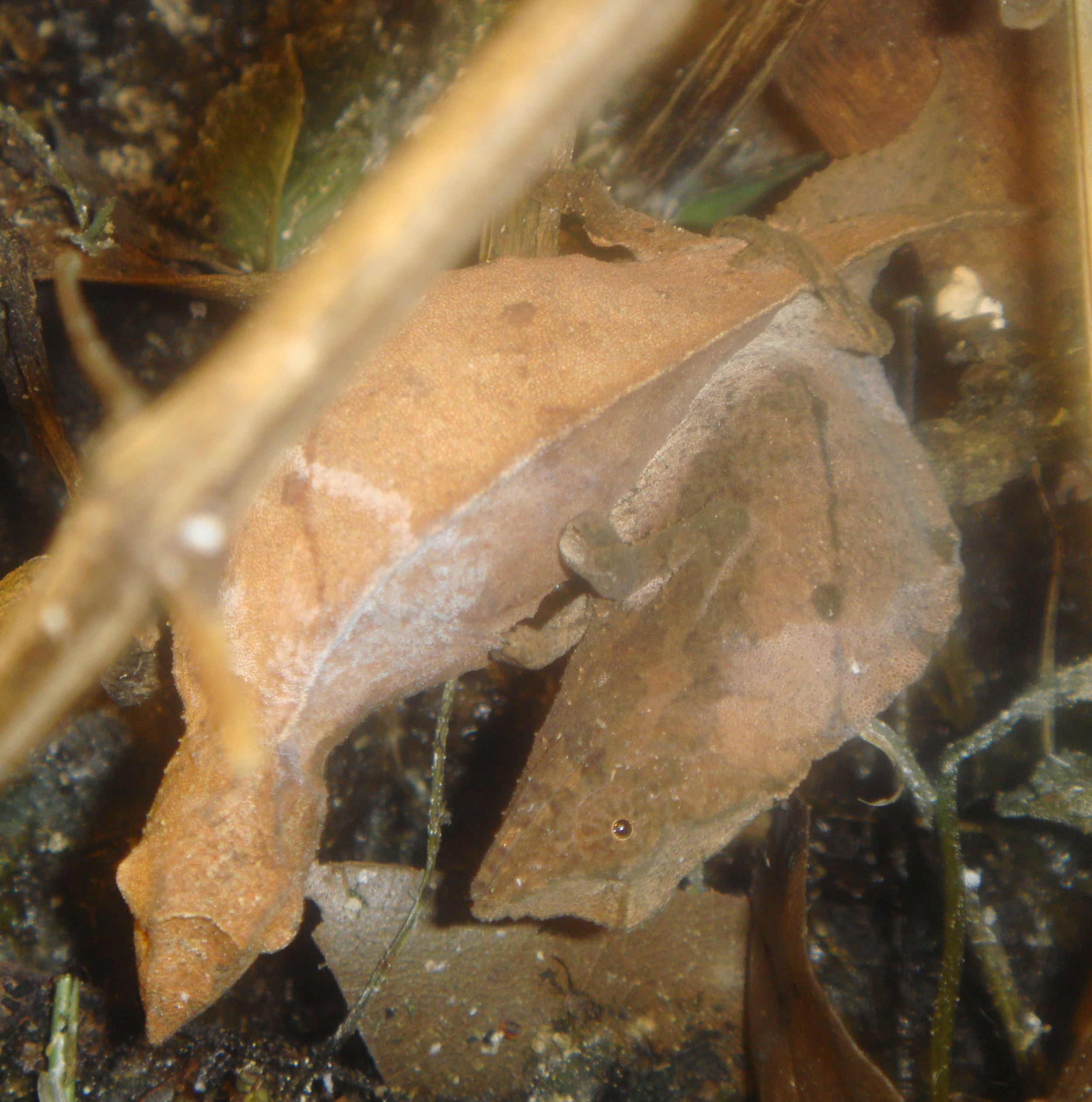 Rhampholeon temporalis, a couple, chameleons. Mating.